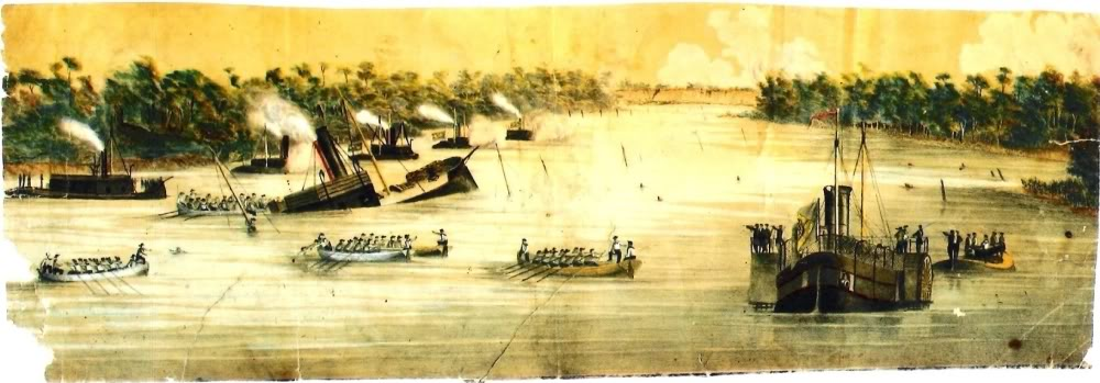 Brazilian Ironclad Rio de Janeiro, launched 1866 and sunk by a mine the same year on the Paraná River.